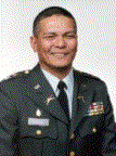 Oscar Hilman as a colonel